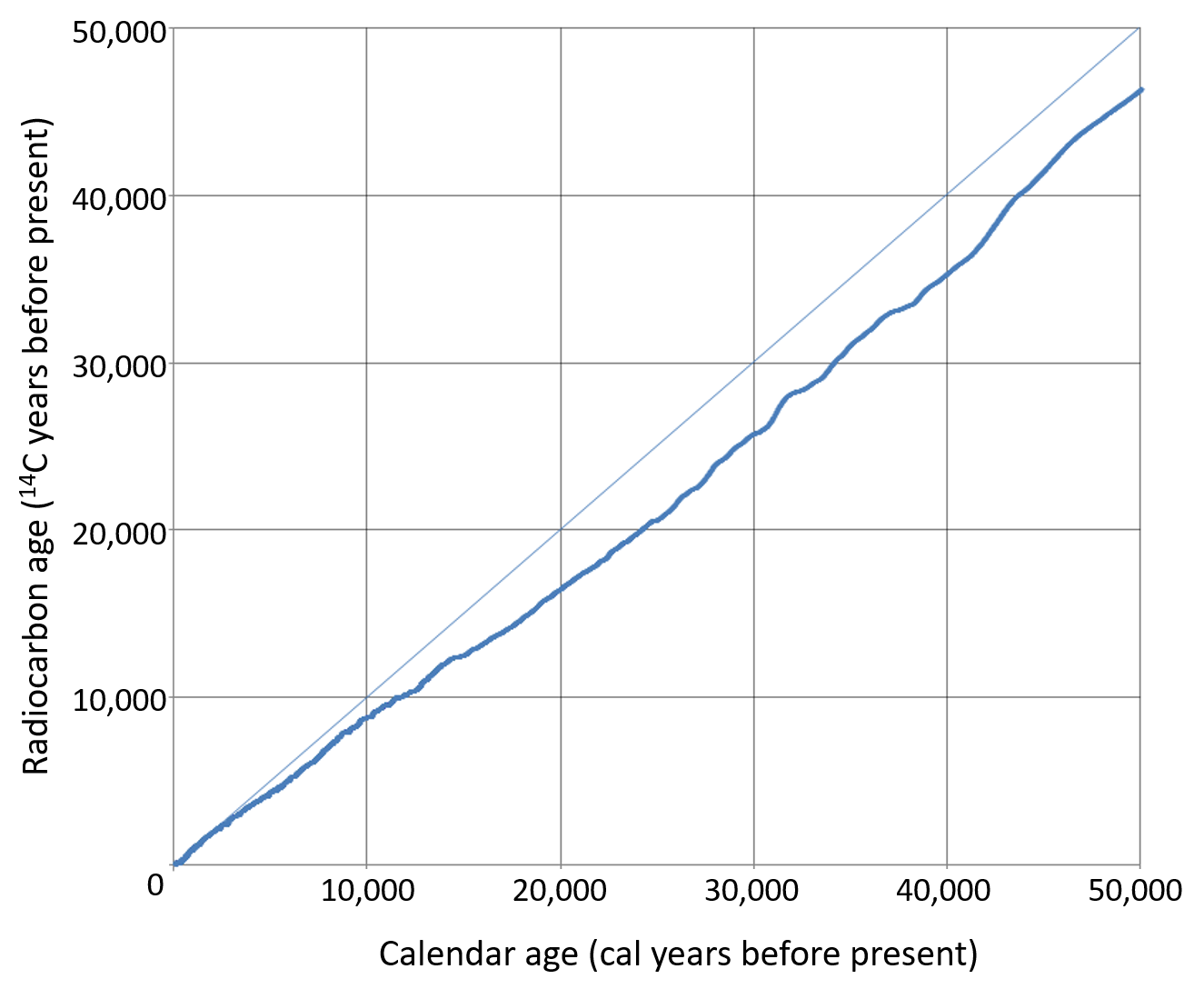 Graph of INTCAL13 data. The source is here, via the "intcal13.14c" link. The paper for which this is supplementary data is "IntCal13 and Marine13 Radiocarbon Age Calibration Curves 0–50,000 Years cal BP", by Paula J Reimer, Edouard Bard, Alex Bayliss, J Warren Beck, Paul G Blackwell, Christopher Bronk Ramsey, Caitlin E Buck, Hai Cheng, R Lawrence Edwards, Michael Friedrich, Pieter M Grootes, Thomas P Guilderson, Haflidi Haflidason, Irka Hajdas, Christine Hatté, Timothy J Heaton, Dirk L Hoffmann, Alan G Hogg, Konrad A Hughen, K Felix Kaiser, Bernd Kromer, Sturt W Manning, Mu Niu, Ron W Reimer, David A Richards, E Marian Scott, John R Southon, Richard A Staff, Christian S M Turney, Johannes van der Plicht, in Radiocarbon, Vol. 55, No. 4.". This paper should be cited when using this data or this graph. The graph uses the first two columns of data from the given source -- calendar years before present, and radiocarbon years before present, using the Libby half-life of 5568 years.